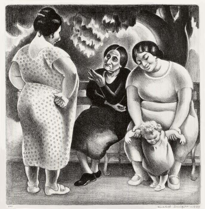 Mabel Dwight, Group in Central Park, 1934, lithograph on stone, 26 x 24.9 cm, edition of 50 printed by George Miller (Public Works of Art Project)